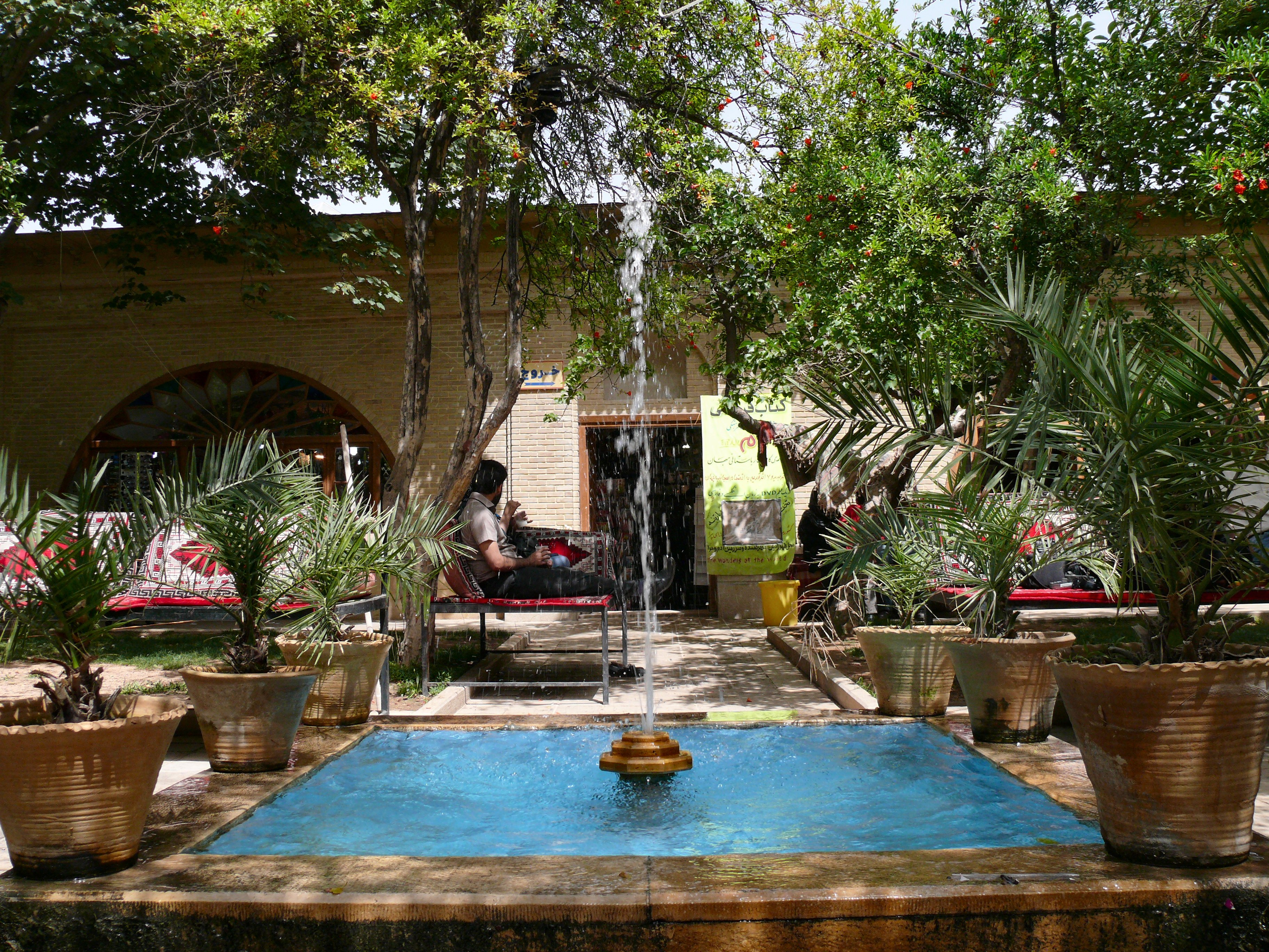 Chaikhaneh (tea house) at the Bagh-e Eram (Eram garden) at Shiraz, Iran, April 2009.